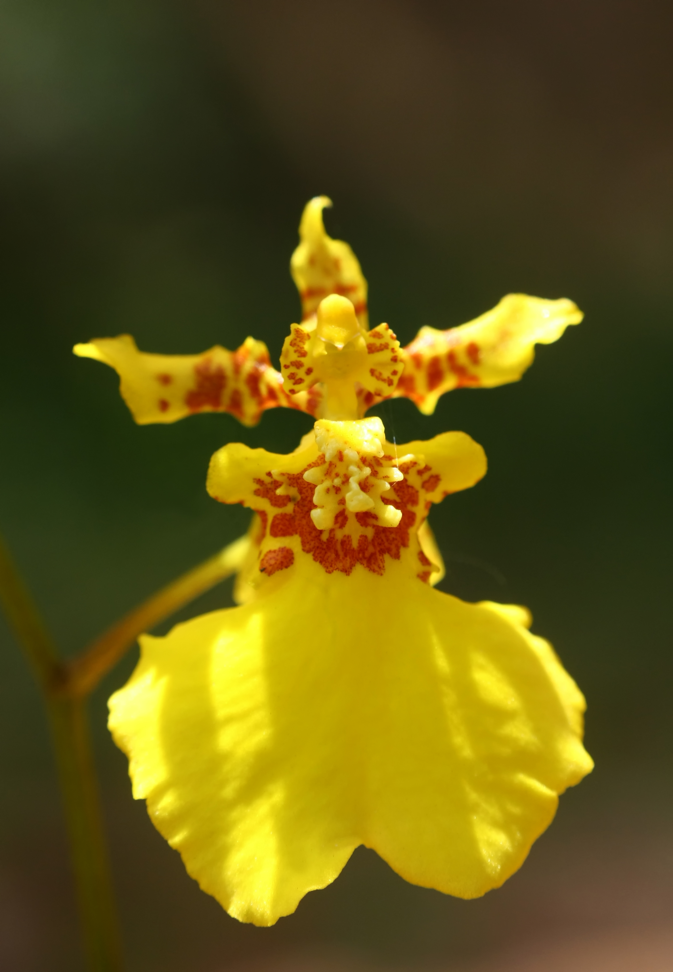 Kandyan dancer orchid (Oncidium sp.)